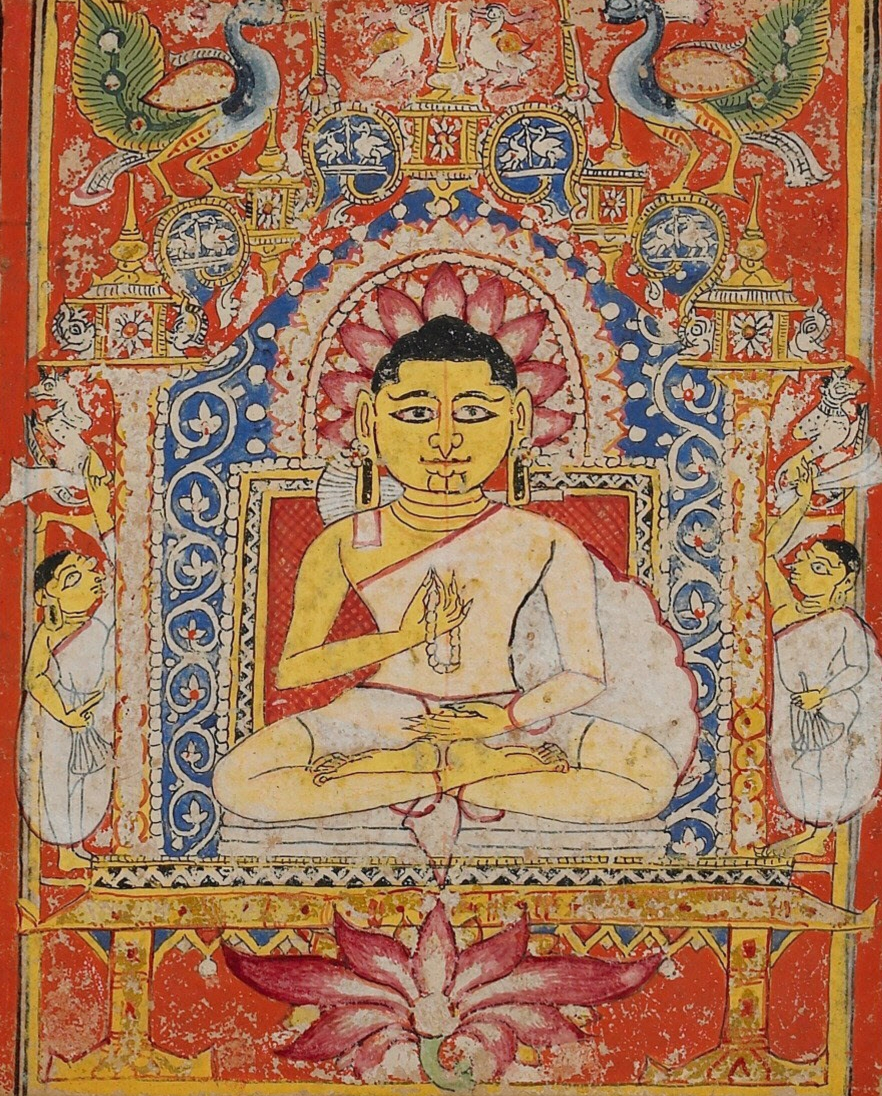 The Jina, or Mahavira, as Guru folio from a manuscript India, Gujarat, ca. 1411 Opaque watercolor on paper overall: 9.3 x 28.7 cm (3 5/8 x 11 5/16 in.) Gift of Mr. and Mrs. Charles Page S1985.2.2a